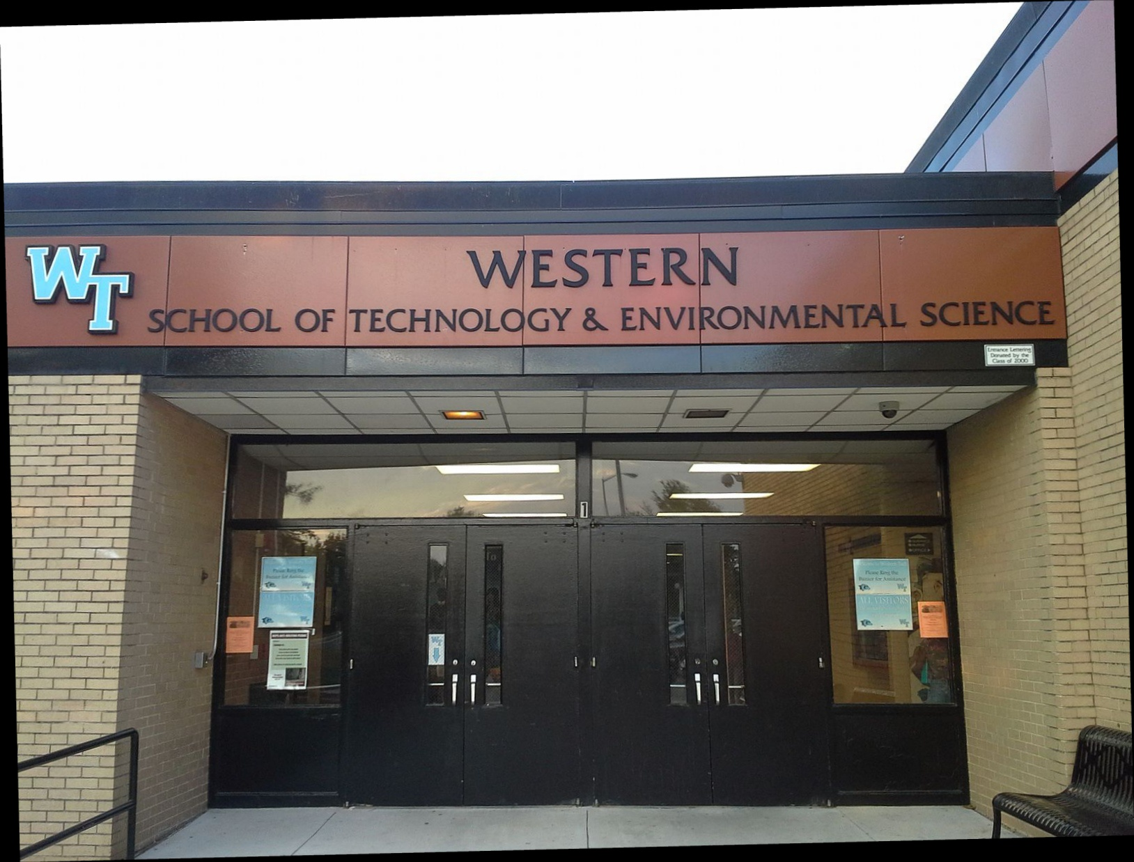 The front of the school